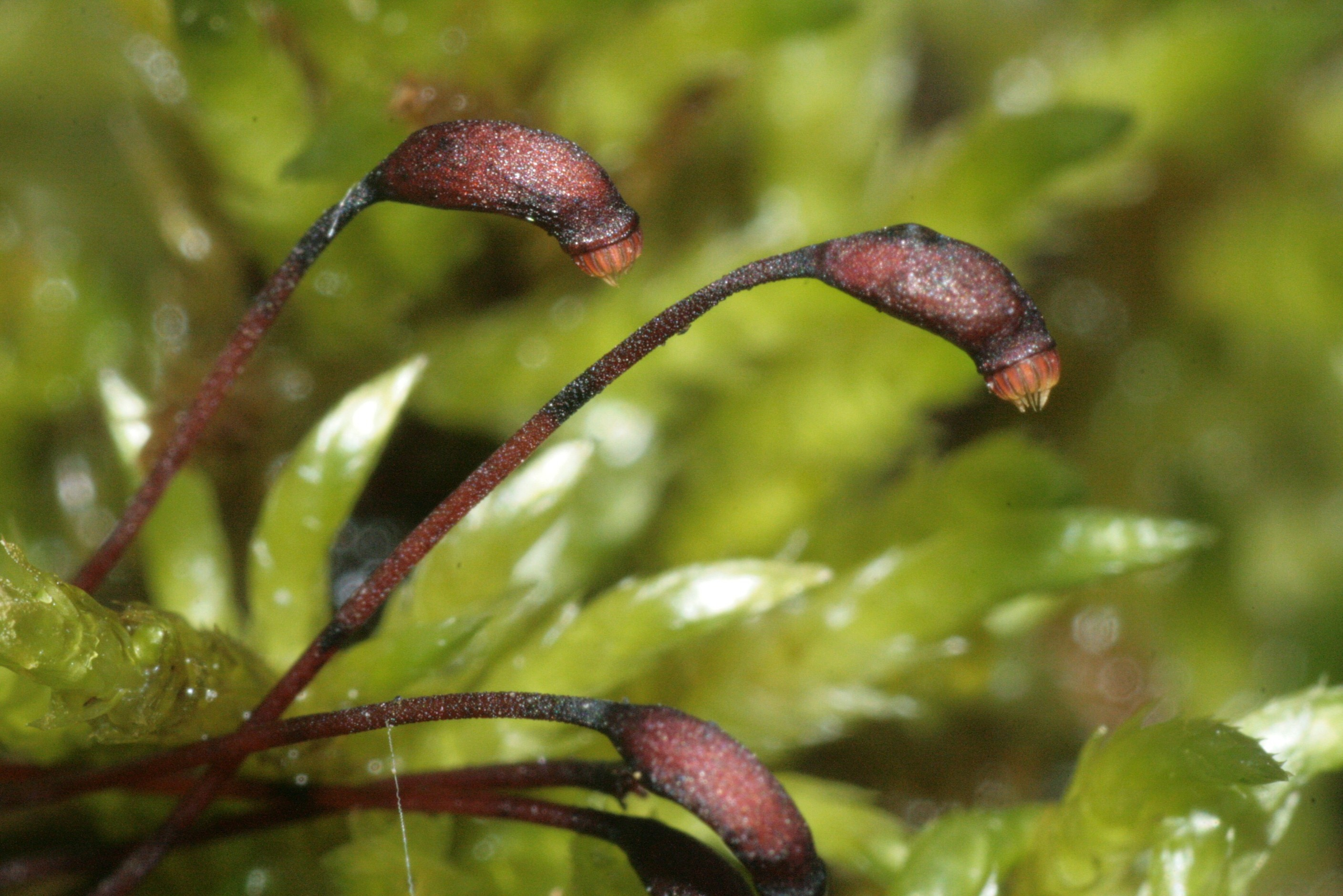 Brachythecium rivulare